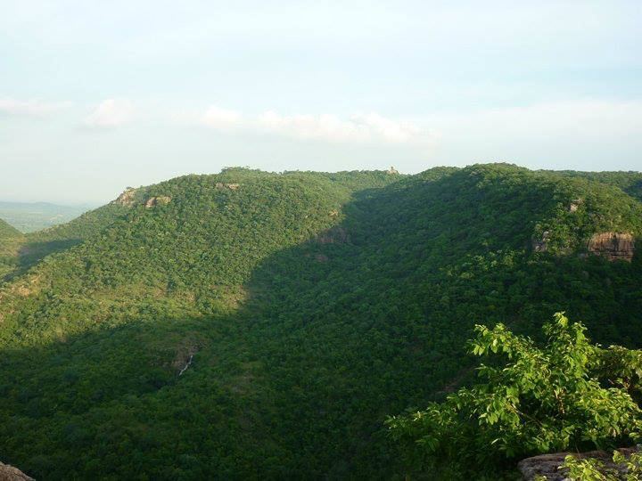 Nature at Ramagiri Khilla